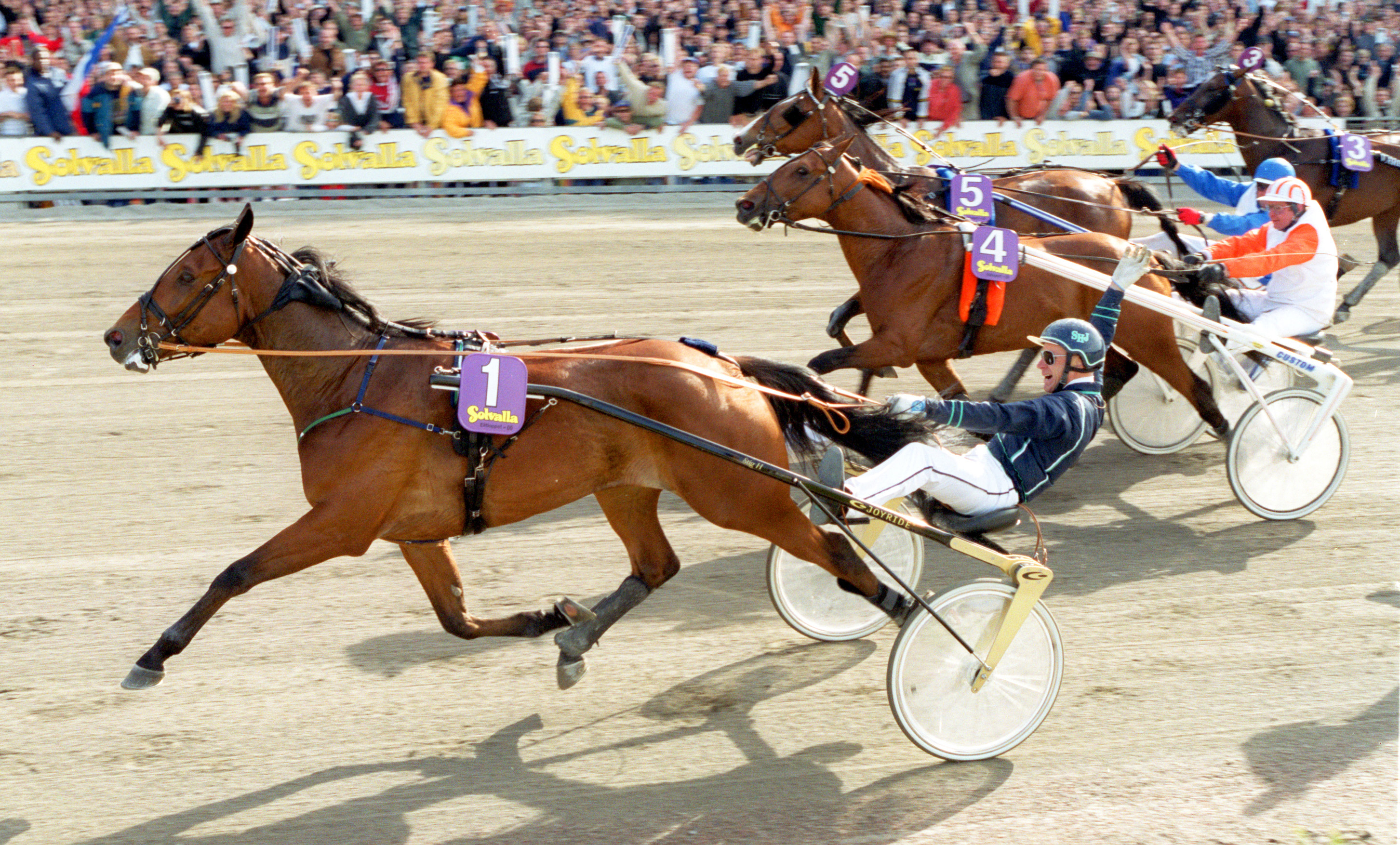 Stig H. Johansson and Victory Tilly (sulky no. 1) wins the 2000 Elit Race at Solvalla Racetrack, Stockholm.